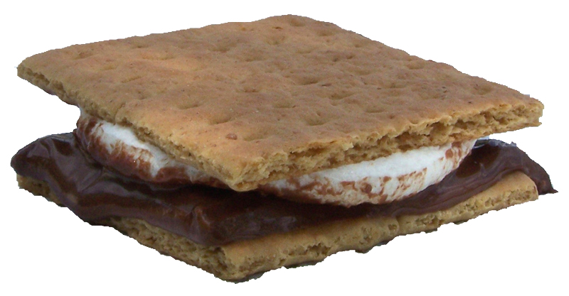 A S'more; melted marshmallow and milk chocolate between two graham crackers.